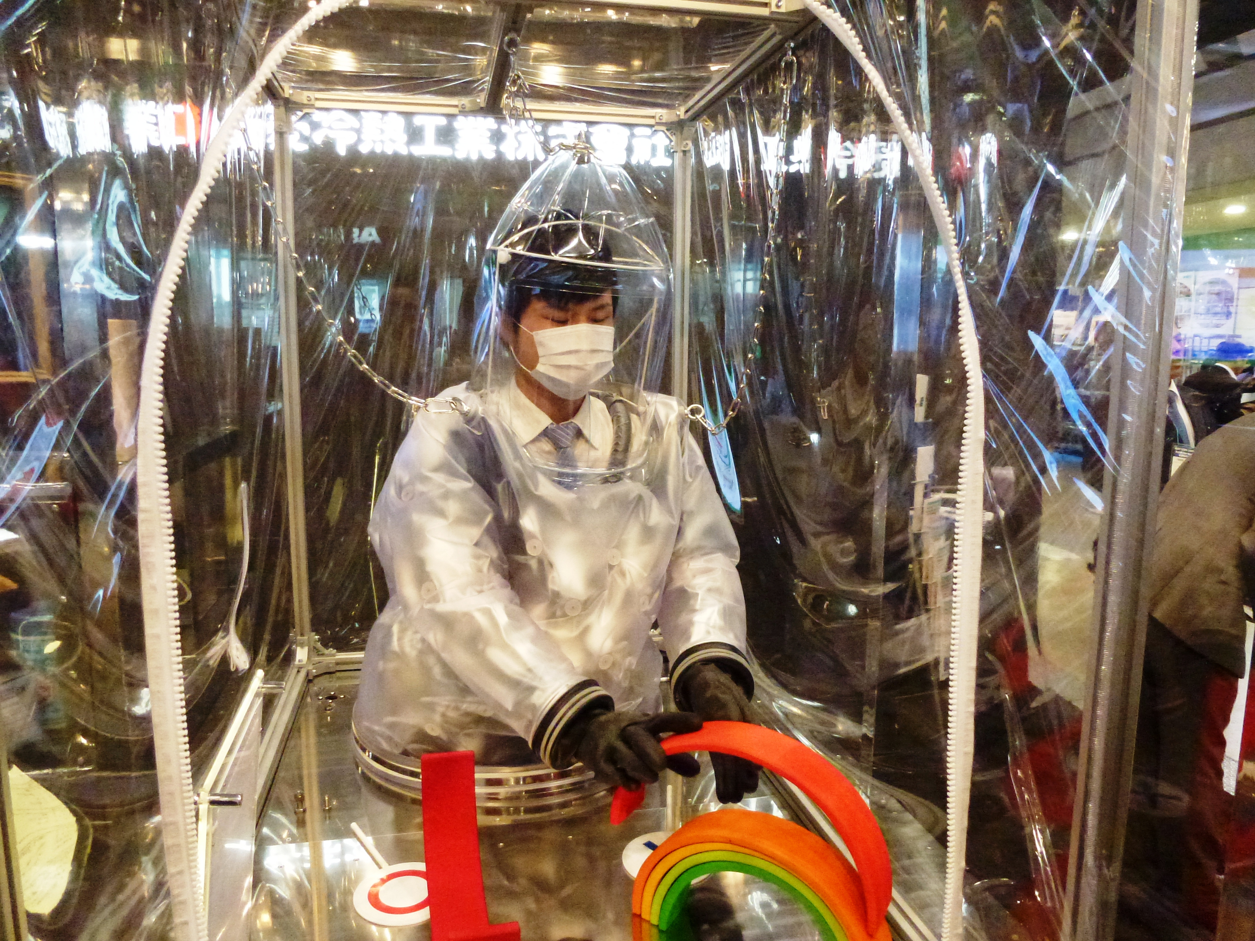 Halfsuit for Contamination control covering the upper part of a man